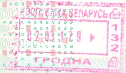 Passport exit stamp of Belarus, issued at Bruzgi border crossing to Poland.